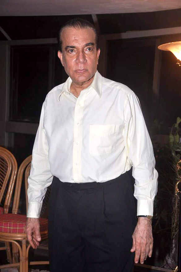 Nari Hira at Nari Hira's birthday bash